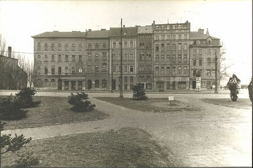 Street in Budapest